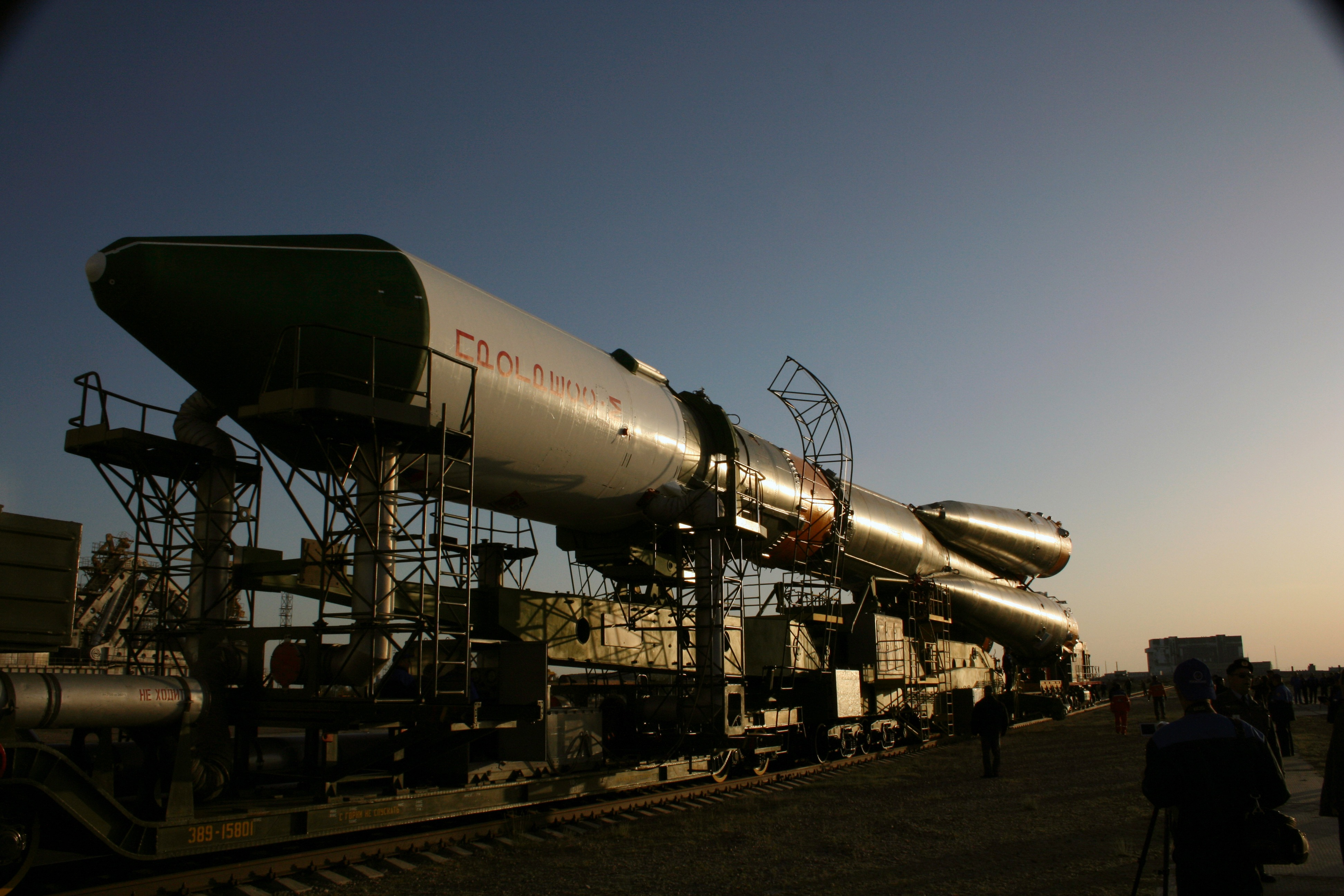 A scene from the Progress 25 rollout at dawn today at the Baikonur Cosmodrome in Kazakhstan.